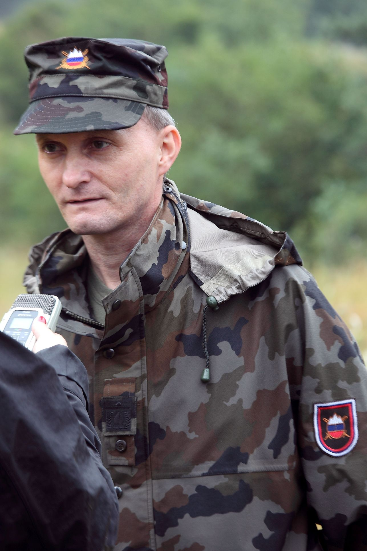 Branimir Furlan in 2010